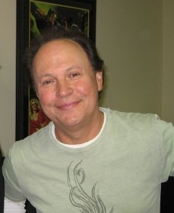 Bob Bekian Photos Read the Blog Billy Crystal says Loyal Studios in Santa Monica is the perfect location to shoot some of his projects. He produced a PSA for the Jewish University as well as a commercial for IBM in the studio.